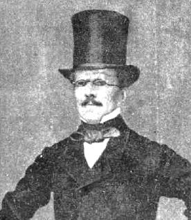 Henrik Costa (1796/1799-1871), Slovene historian